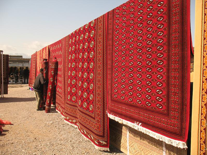 Tolkuchka Bazaar, Ashgabat, Turkmenistan